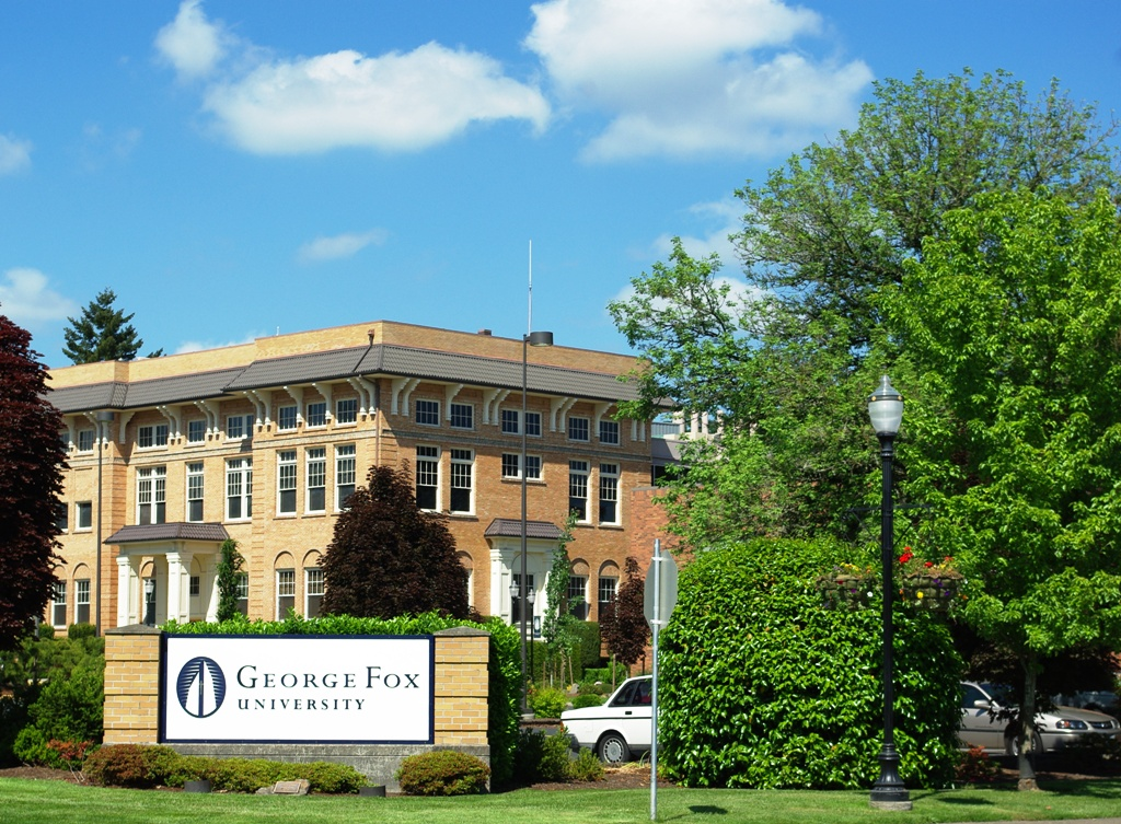 Entrance at George Fox University